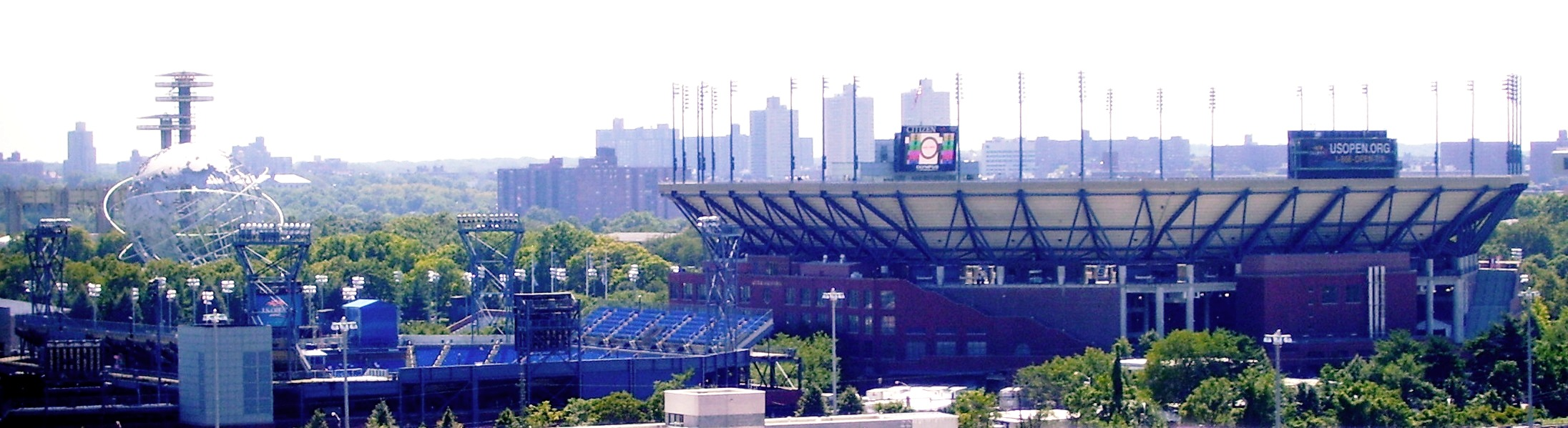 The USTA Billie Jean King National Tennis Center in Flushing Meadow-Corona Park, Queens, New York City, as seen from the Met's CitiField. On the right is Arthur Ashe Stadium, on the left is Louis Armstrong Stadium. In the left background is the Unisphere and the towers of the New York State Pavillion behind it.